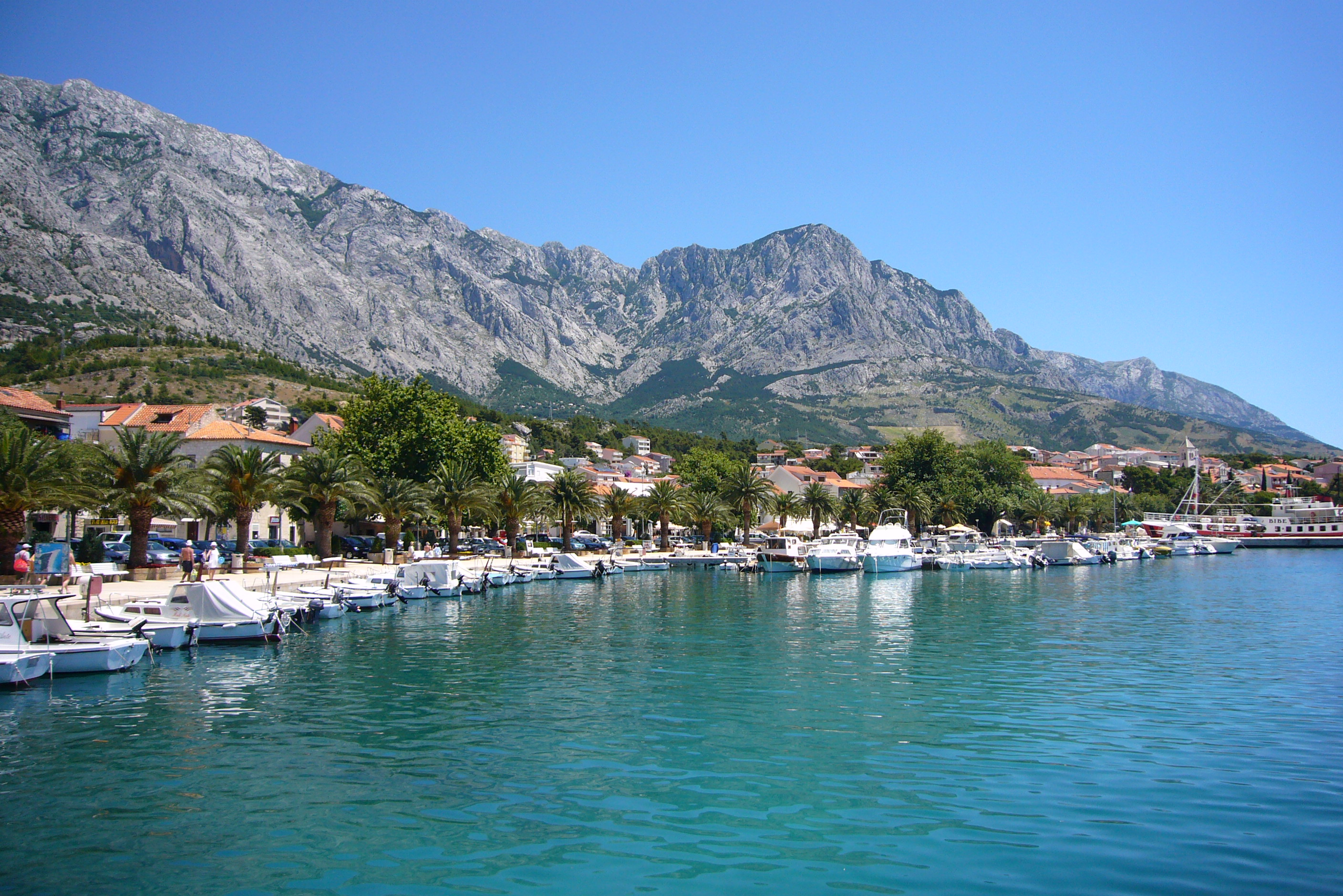 Baska Voda, Makarska Riviera, Croatia